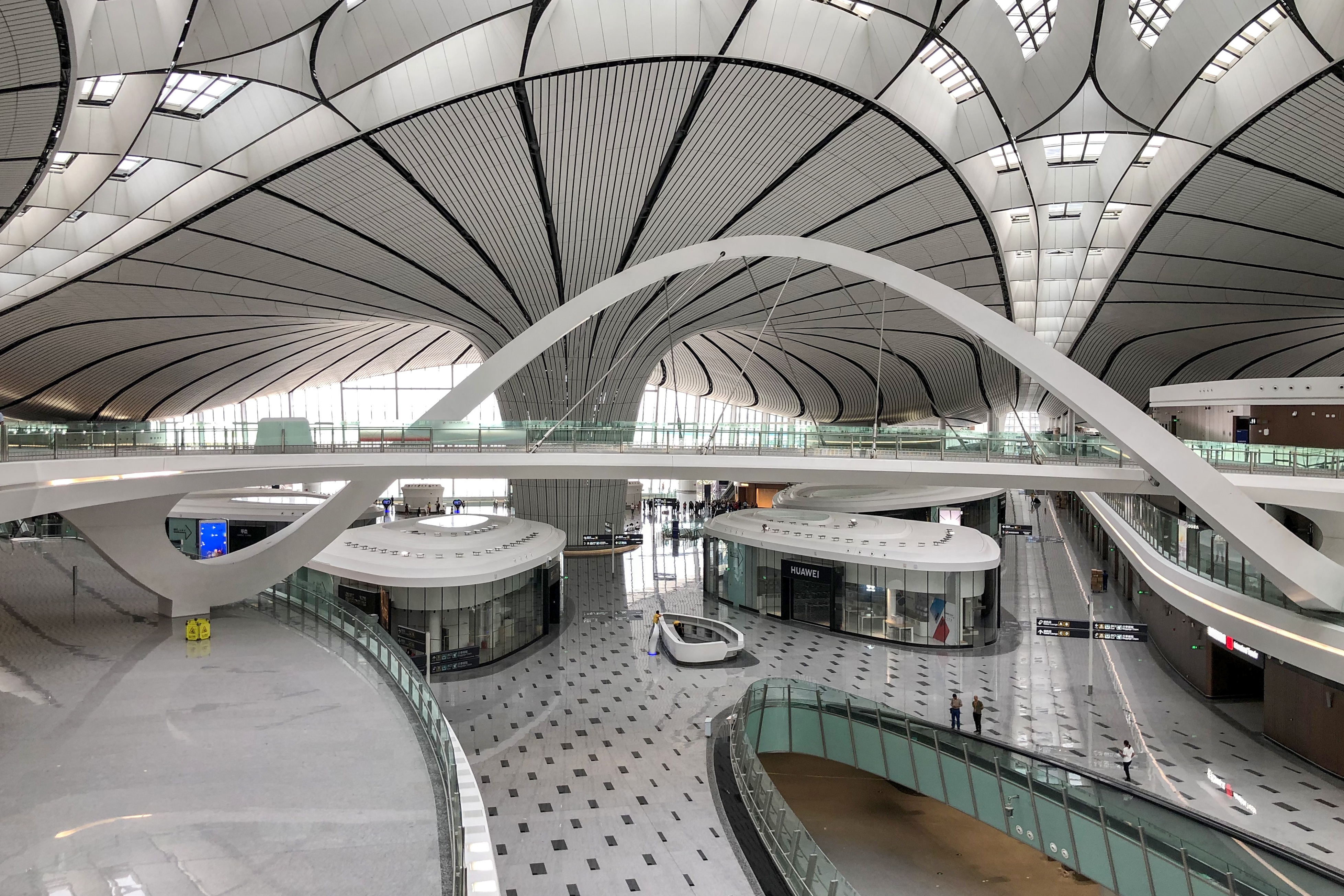 Two bridges from security check to immigration inspection counters.